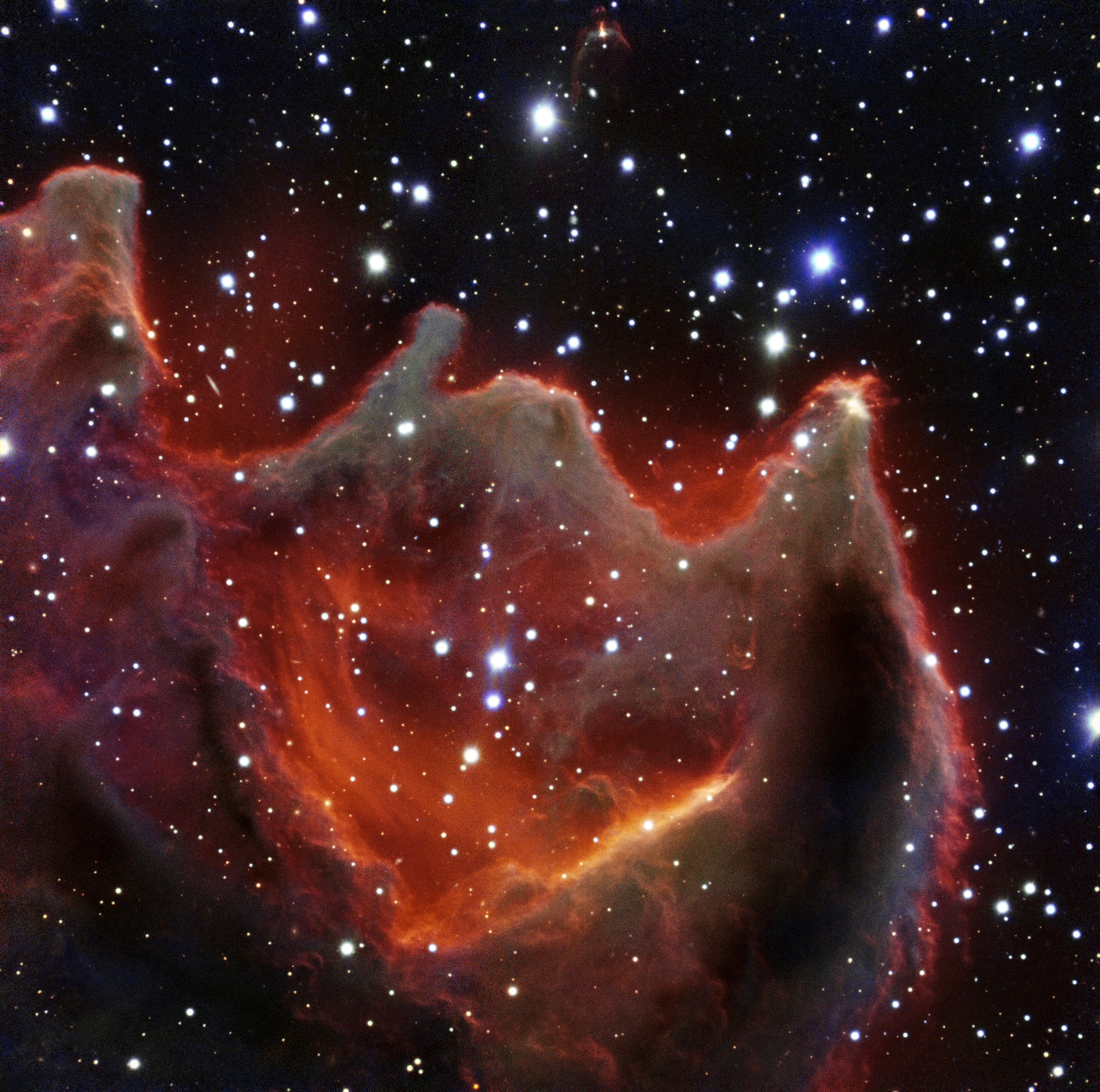 Like the gaping mouth of a gigantic celestial creature, the cometary globule CG4 glows menacingly in this image from ESO’s Very Large Telescope. Although it looks huge and bright in this image it is actually a faint nebula and not easy to observe. The exact nature of CG4 remains a mystery.